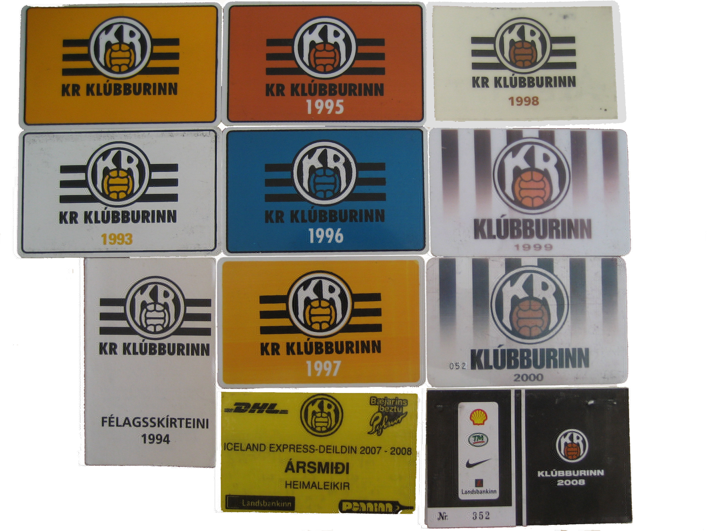 A collection of season tickets for the Icelandic soccer team KR